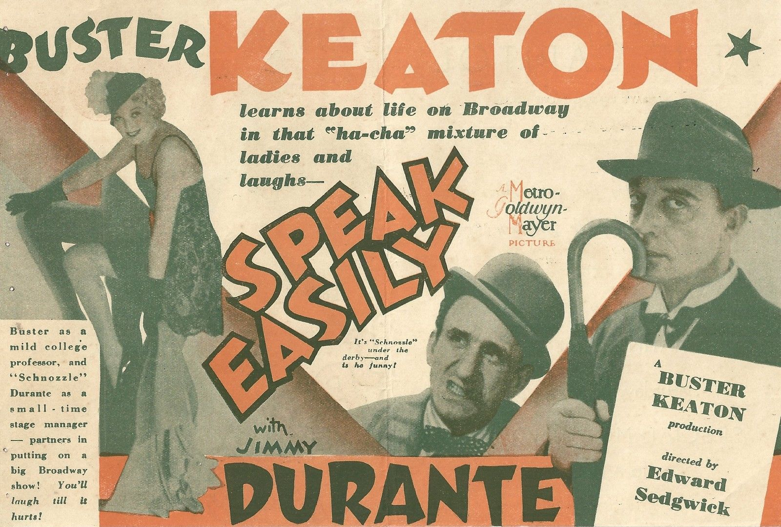 One side of the pressbook promoting Speak Easily (1932), starring Buster Keaton, Jimmy Durante, and Thelma Todd, in Capitol Cinema, a theatre of present-day Mumbai, India